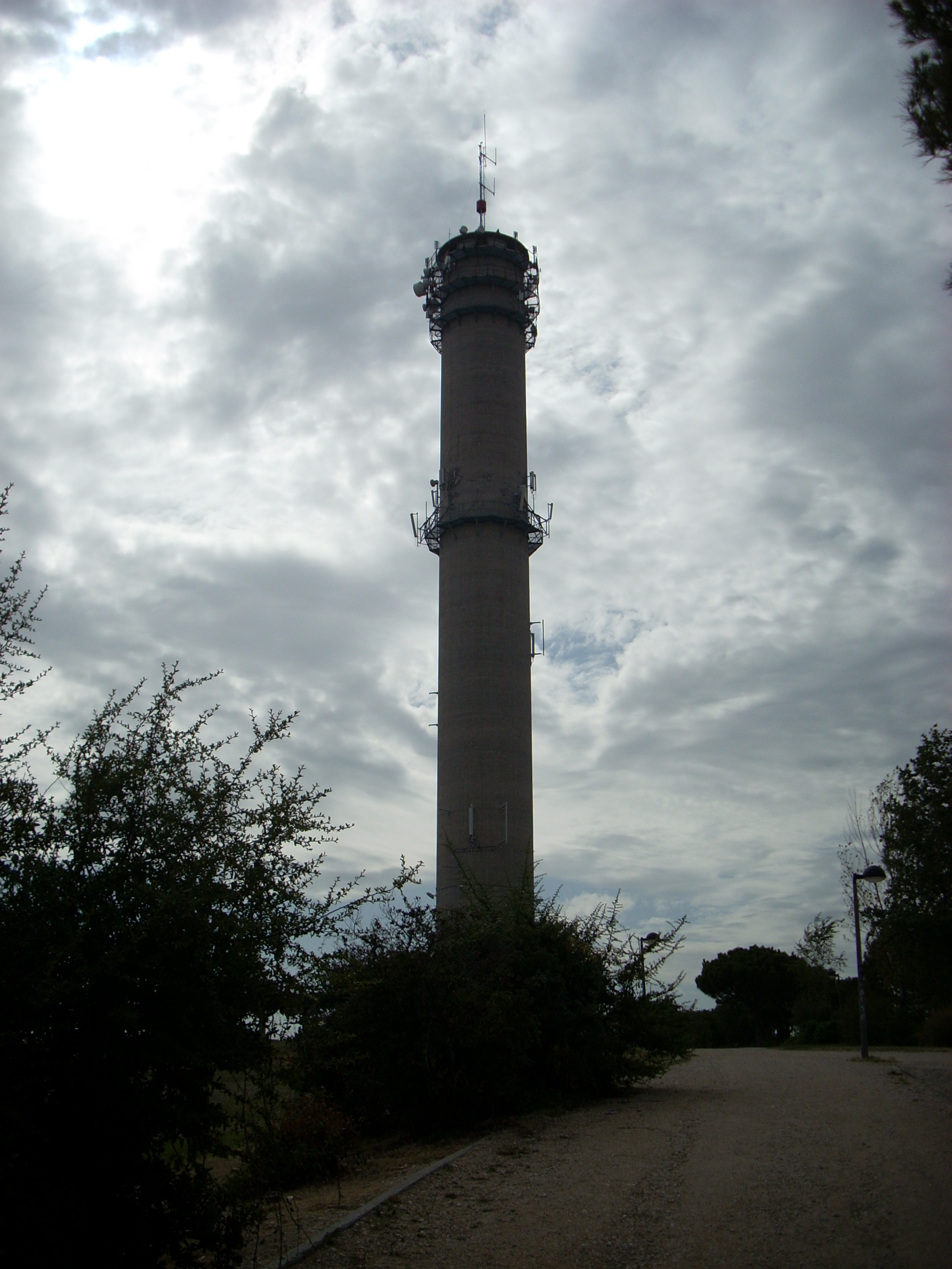 Water tower, Parque Central, Tres Cantos, Madrid, Spain